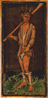 the fool in the Pierpont-Morgan tarot collection, shot on location at the library.